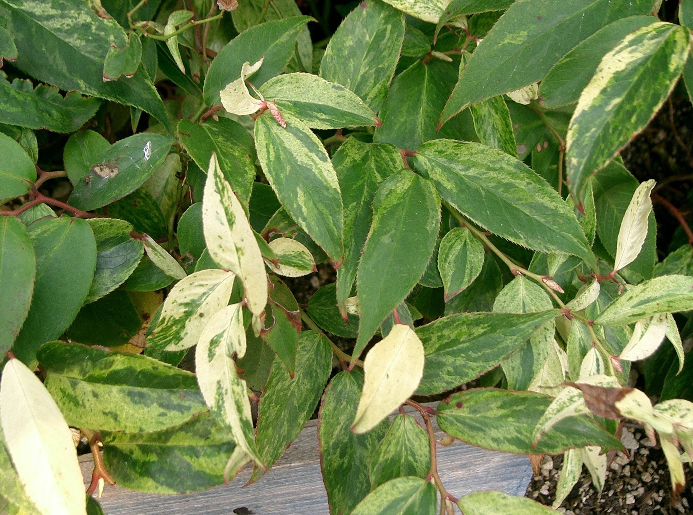 Leucothoe catesbaei 'Rainbow'